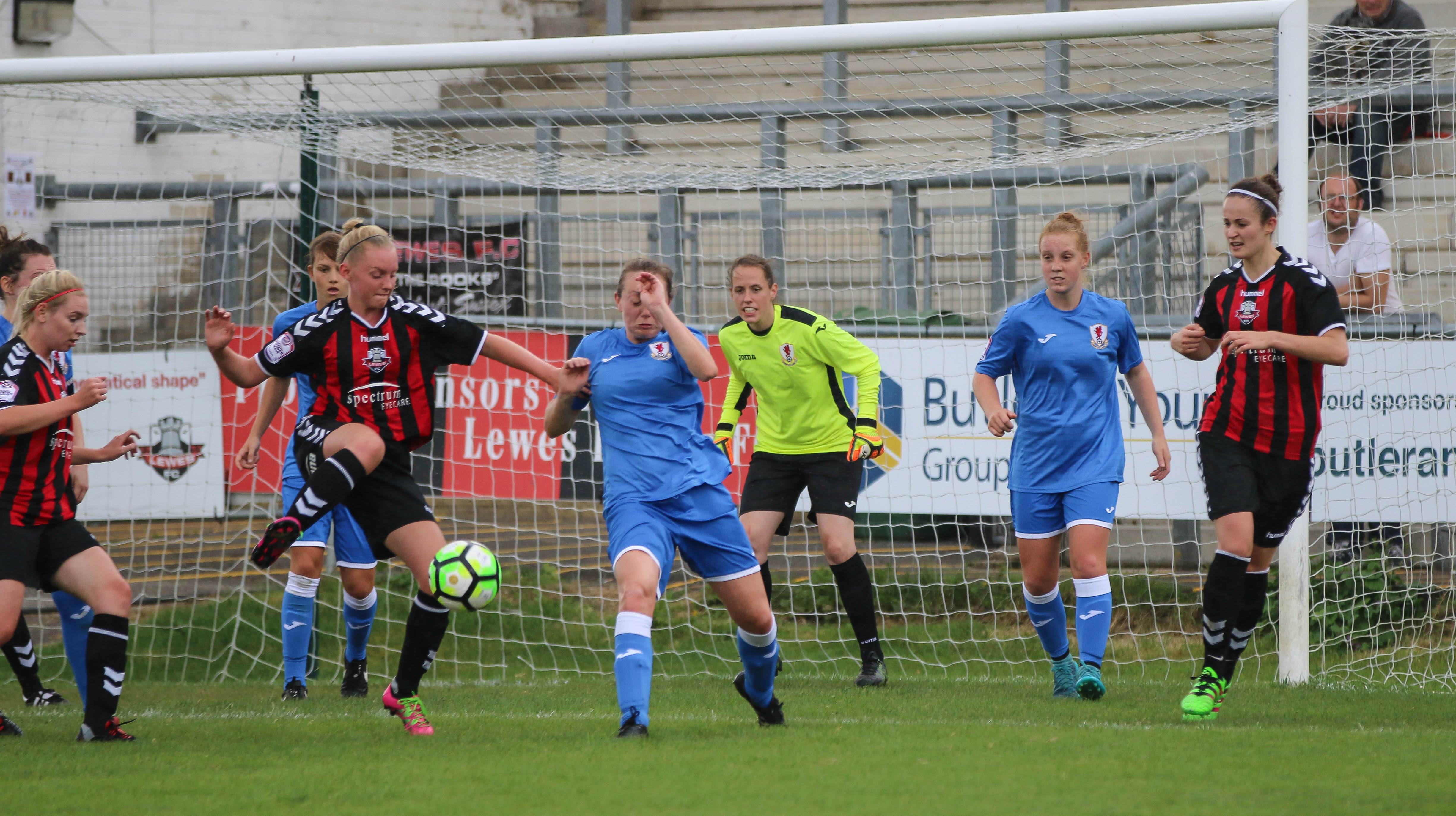 Lewes FC Ladies 1 Cardiff City Ladies 1 28 08 2016-2492.jpg